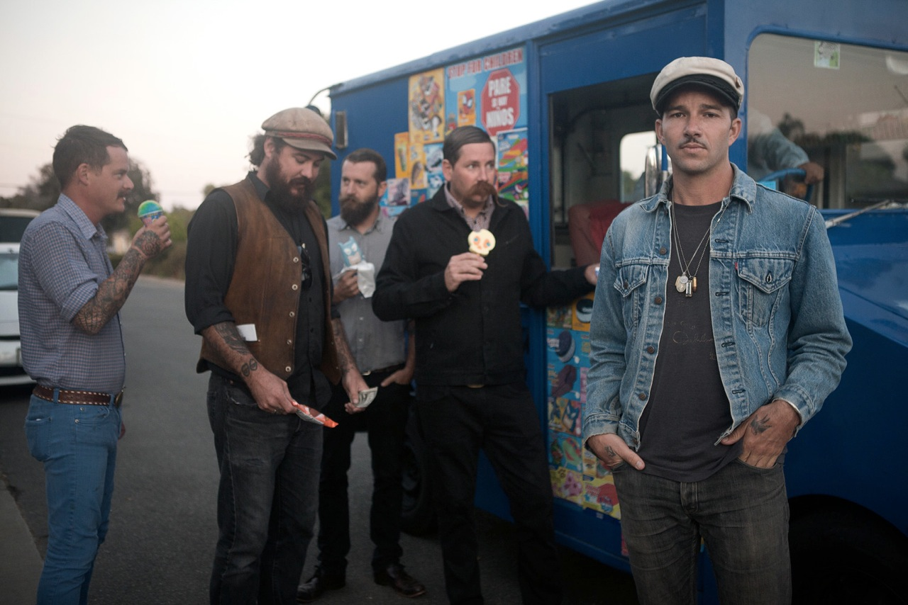 The Drowning Men Press Photo